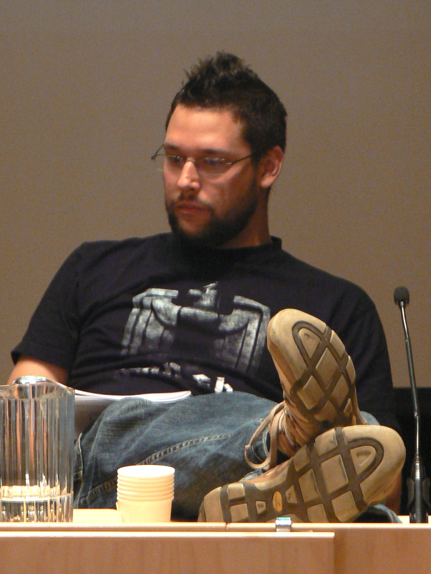 Timo Vuorensola, director of Finnish sci-fi parodies Star Wreck V and VI, at Ropecon 2008.